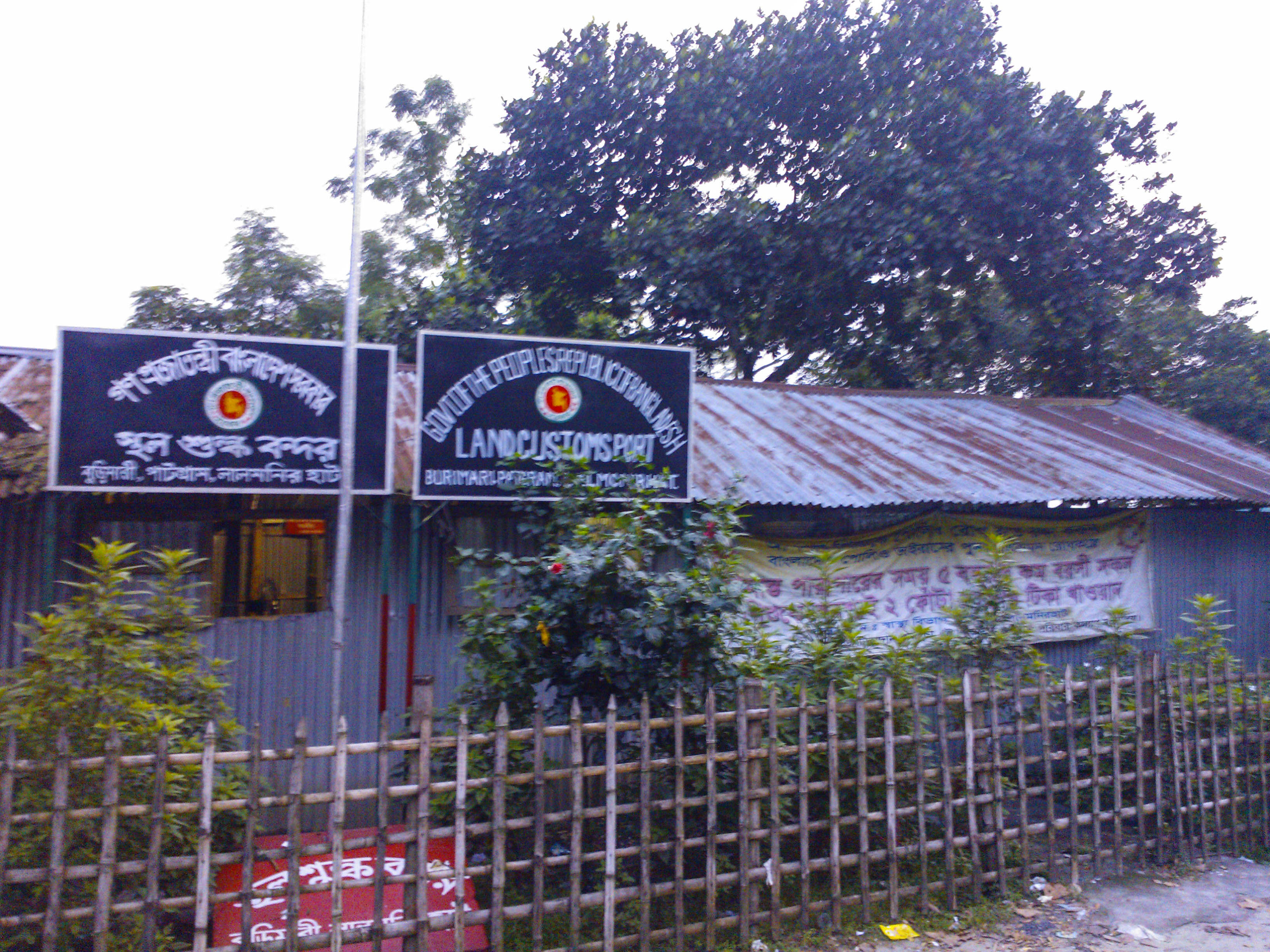 Burimari land custom port, Bangladesh